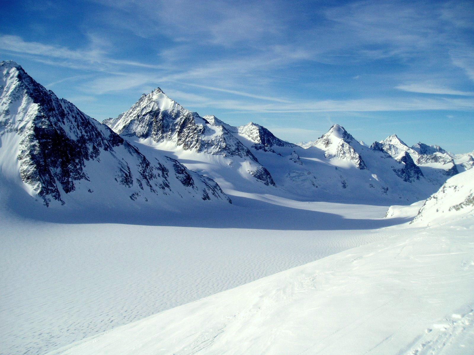 Glacier d'Otemma, Valais From left to right: Petit Mont Collon (main summit not visible) La Singla Pointe de Boette Bec de la Sasse (center of image) Aouille Tseuque Bec d'Epicoune Bec du Chardonet